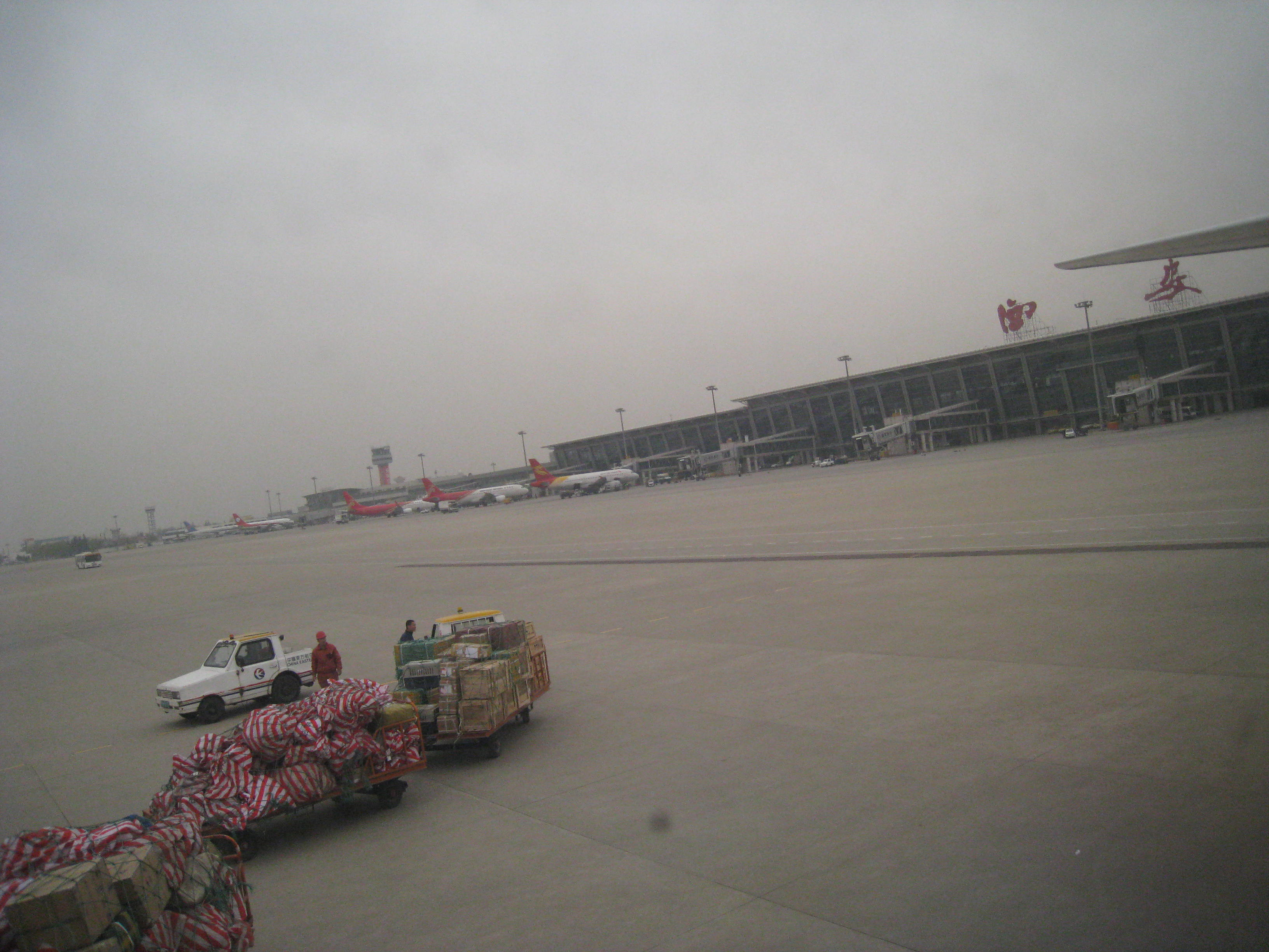 Xi'an Xianyang Airport